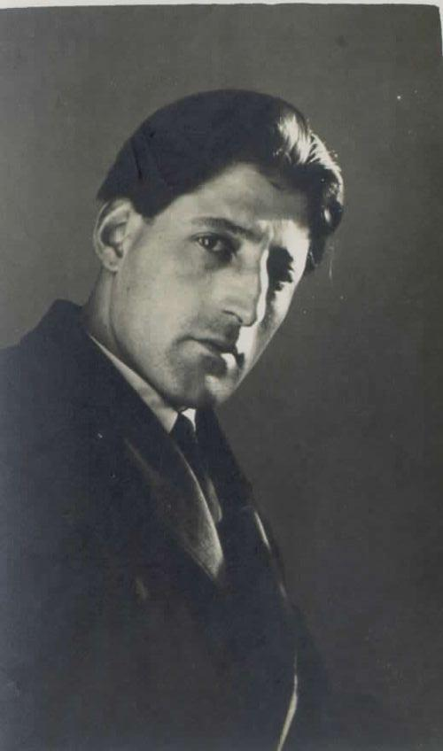 Miran Jarc (1900-1942), Slovene writer, poet and playwright.